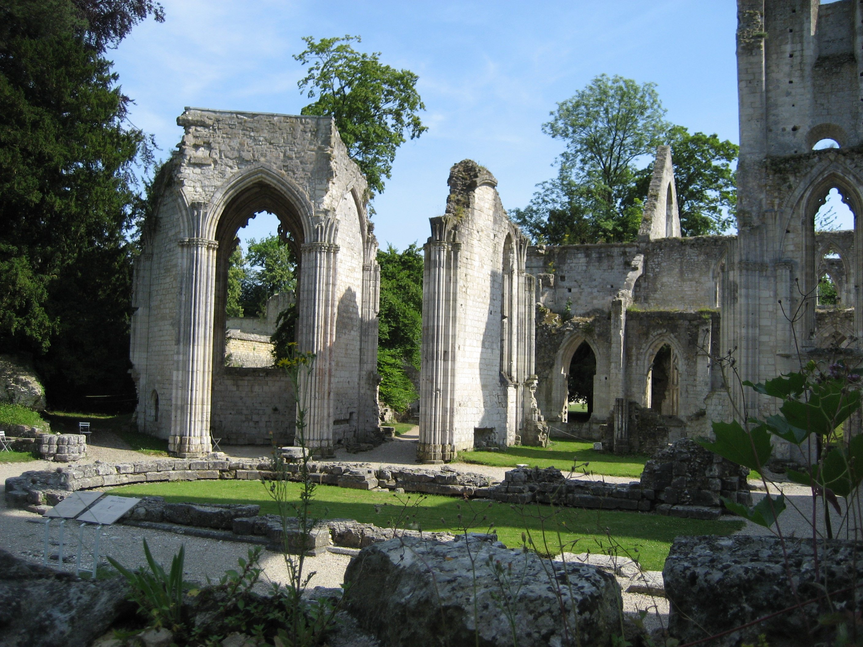 Notre Dame's church